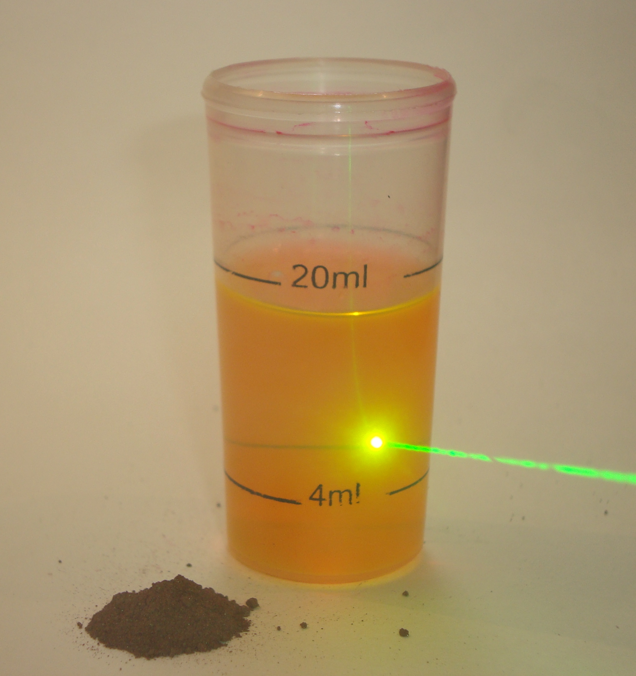 Rhodamine 6G Chloride, in powder form, and mixed with methanol. The green 532 nm light from a 100 milliwatt frequency-doubled Nd:YVO4 laser diode excites the dye, causing it to fluoresce in yellow.